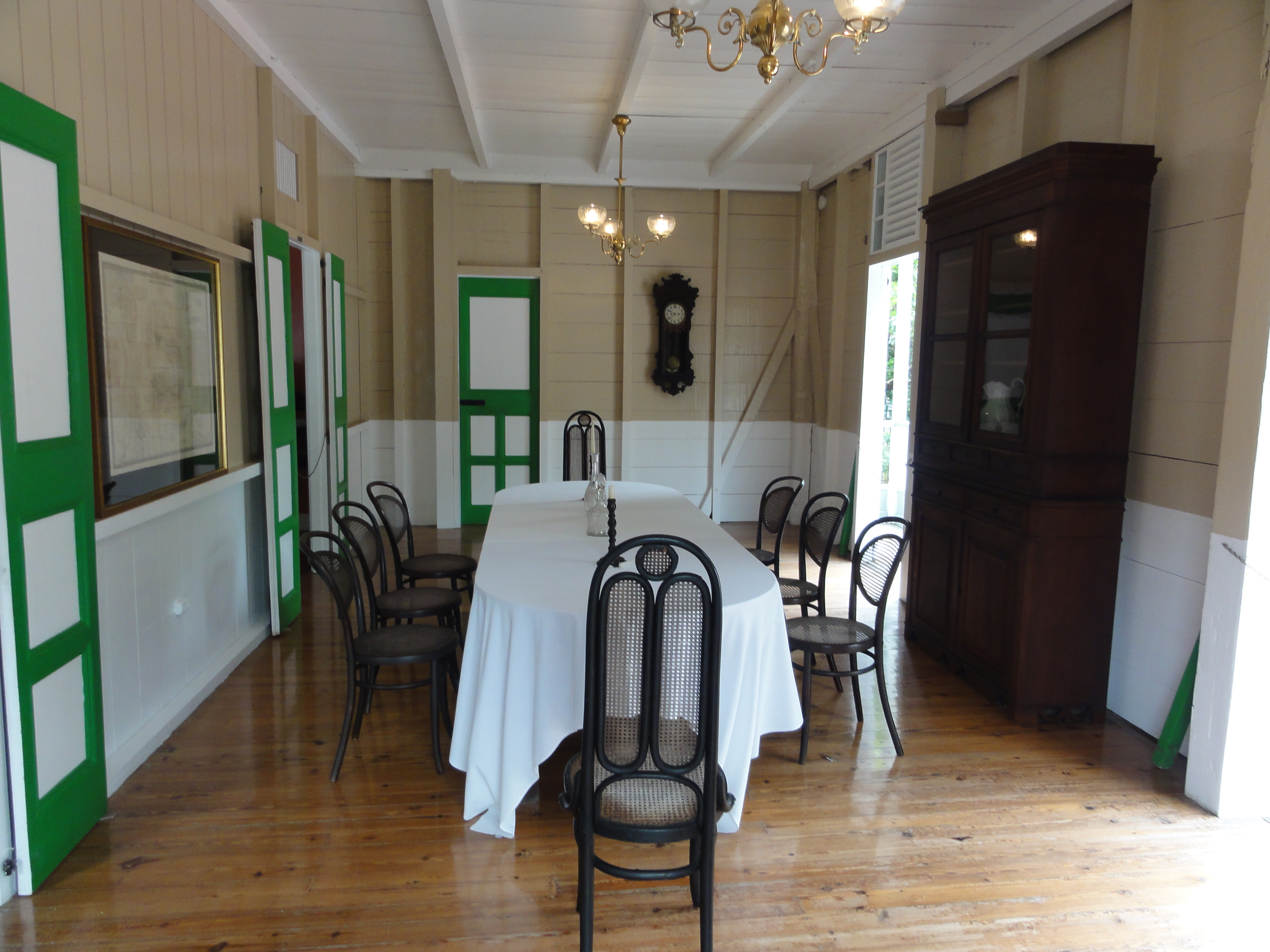 Comedor de la Casona en Museo Hacienda Buena Vista, Bo. Magueyes, Ponce, PR (DSC03574)